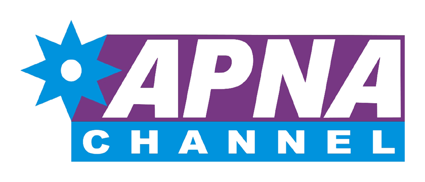 Logo of Apna Channel